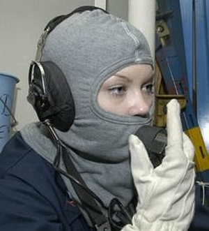 Navy Petty Officer 3rd Class Emily Summers uses a sound powered phone to establish communications with Damage Control Central during a general quarters drill onboard the submarine tender USS Emory S. Land (AS 39) on Feb. 28, 2006. The Land is en route to the Gulf of Guinea off of the west coast of Africa to initiate a series of security cooperation activities with various West African Nations. Summers is a Navy yeoman onboard the Land. DoD photo by Petty Officer 2nd Class Jonathan Kulp, U.S. Navy. Released to public and available for download.